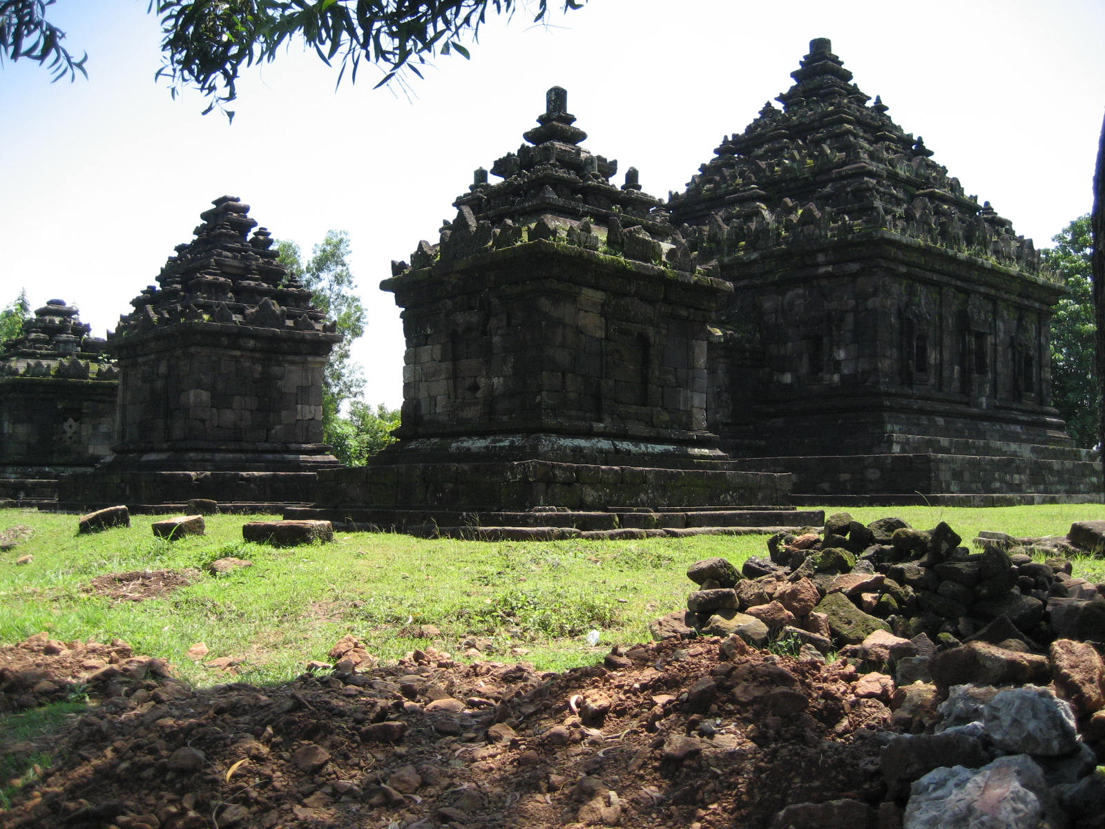 Candi Ijo (Hindu's temple) in central Java, Yogyakarta